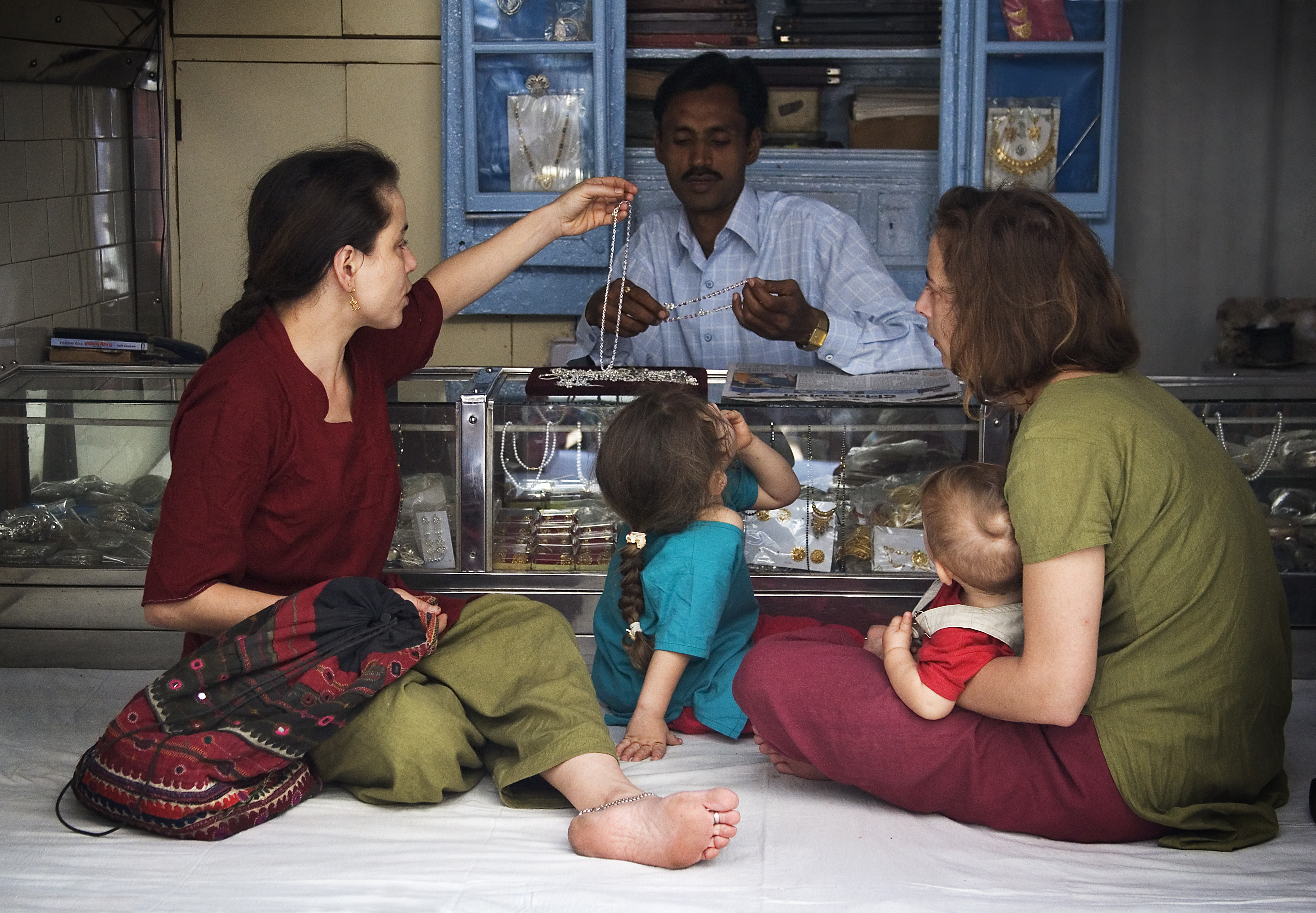 Two western women shopping for silver Varanasi Benares India